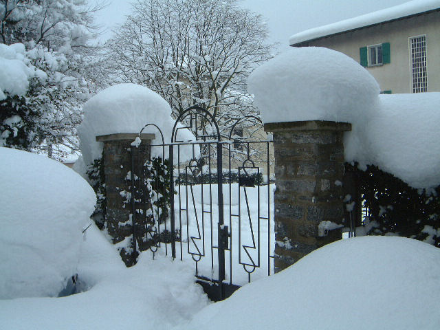 An unusually heavy snowfall in Arbedo-Castione near Bellinzona, Ticino, Switzerland